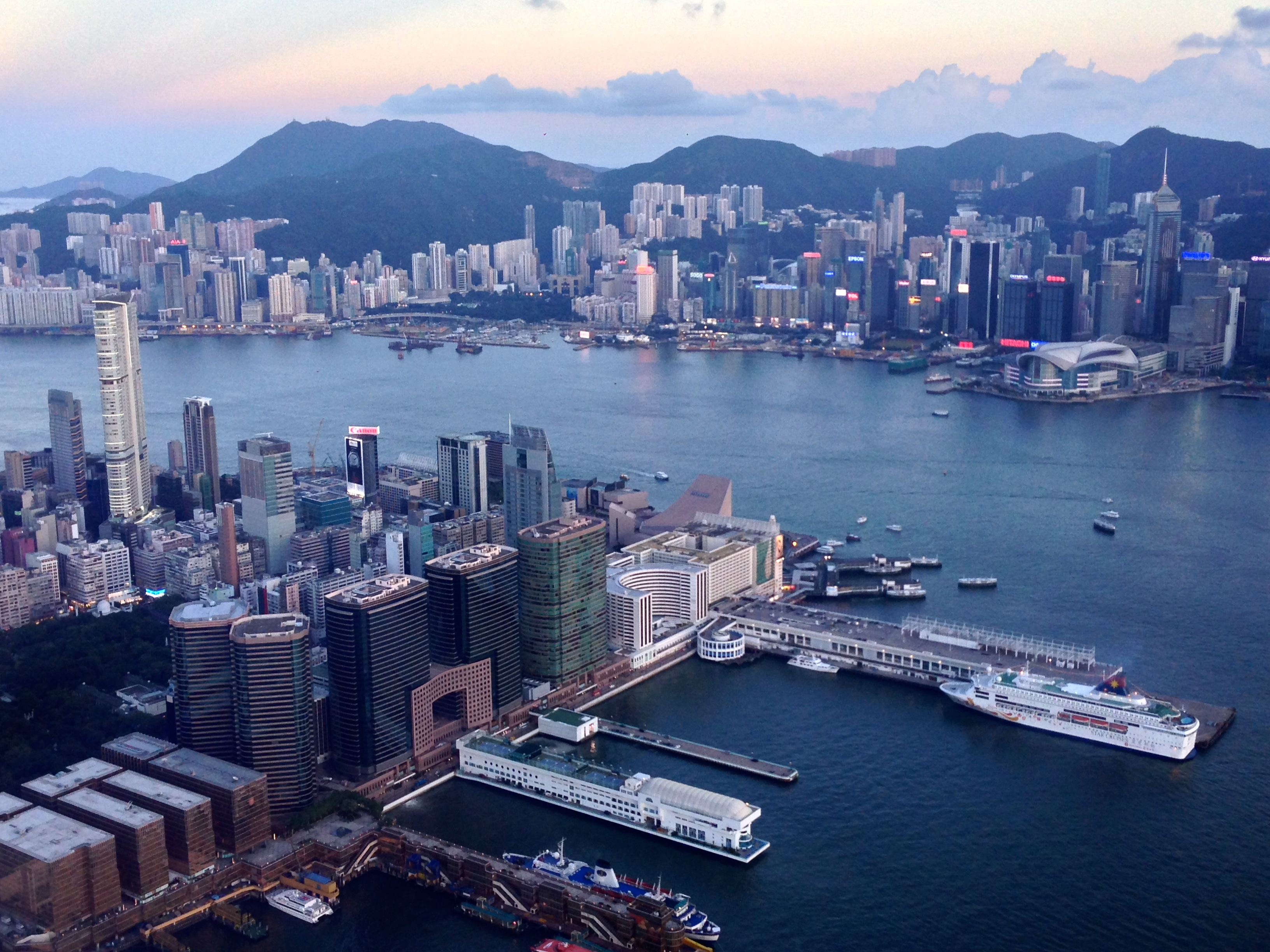 Hong Kong skyline view from Sky100 - photo taken during Wikimania 2013.